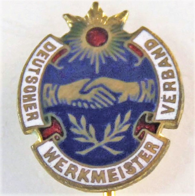 Pin of German Industrial Engineers Union